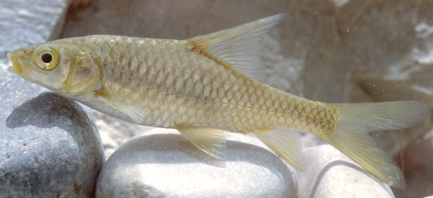 Juvenile Carasobarbus exulatus, live specimen from Wādī al Khūn.